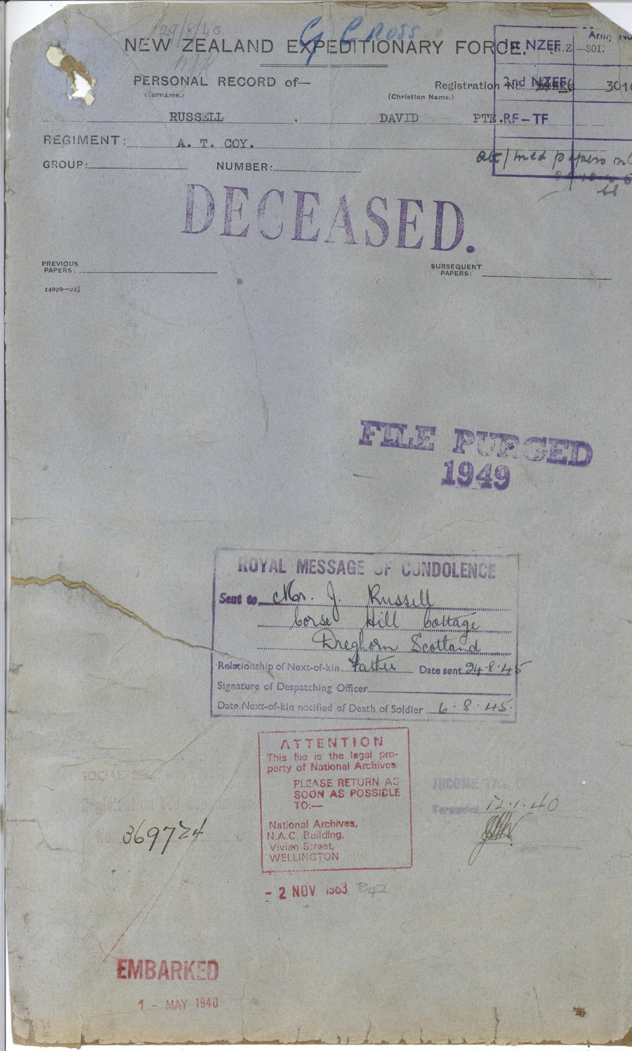 Personnel file of David Russell. Served during WWII in the New Zealand Army (1939 - 1960). Recipient of the George Cross (Gallantry Medal). Archives New Zealand Reference: AAAL 18806 W478 3